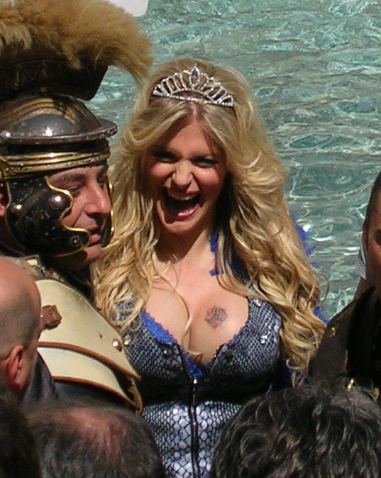 Italian media starlette, Francesca Cipriani, protesting at the Trevi Fountain, Rome, against TV company Endemol.